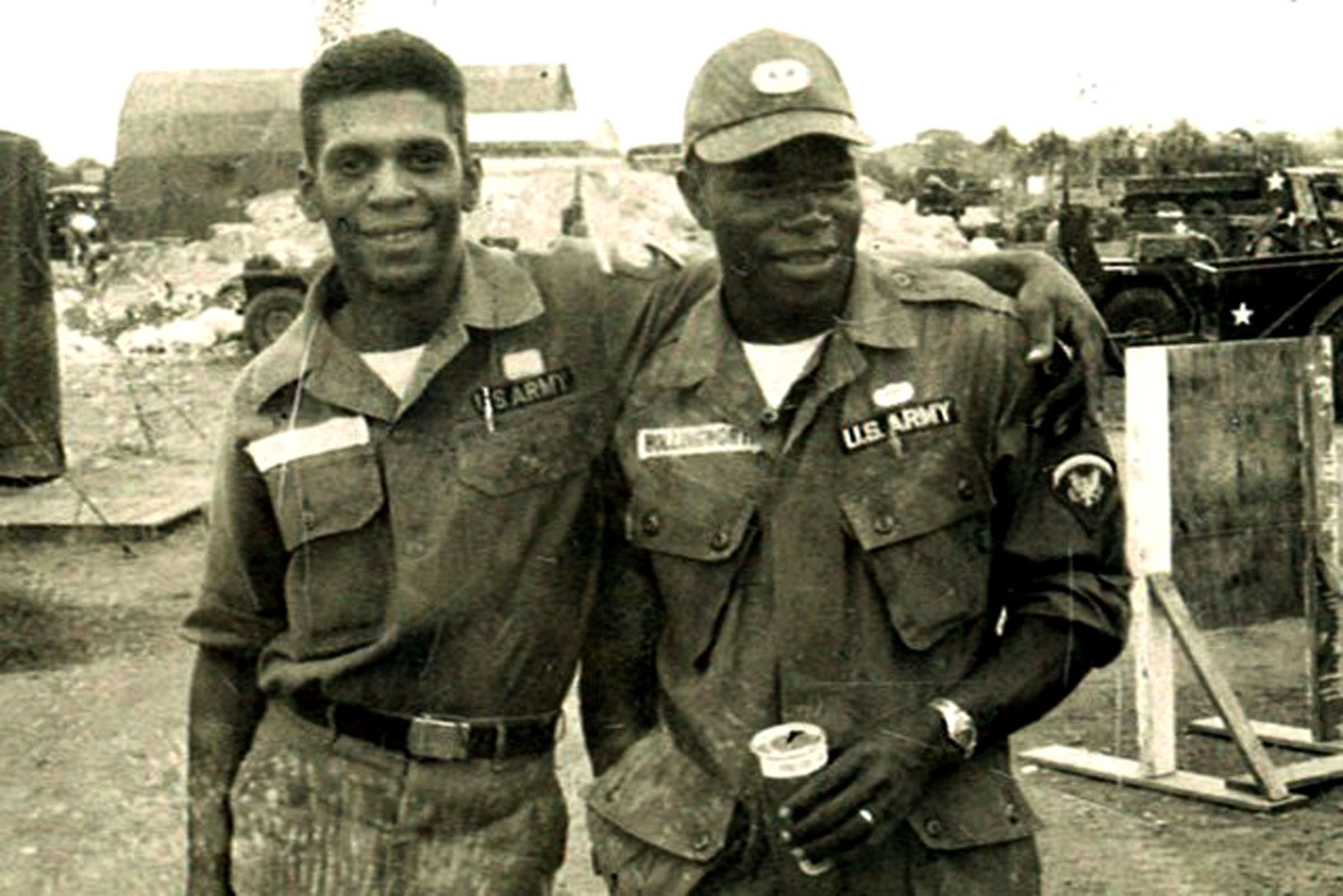 Melvin Morris and a fellow Soldier take time to pose for a photo taken in South Vietnam. More than 40 years since serving on a heroic mission in South Vietnam, Morris will receive a Medal of Honor initially denied to him because he was black.(Photo courtesy Melvin Morris) To learn more about U.S. Army Africa visit our official website at Official Twitter Feed: Official Vimeo video channel: Join the U.S. Army Africa conversation on Facebook